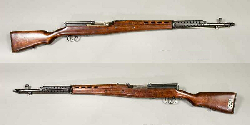 SVT-40 Russian semi-automatic rifle (1940), without magazine. Caliber 7.62x54mmR. From the collections of Armémuseum (Swedish Army Museum), Stockholm, Sweden.